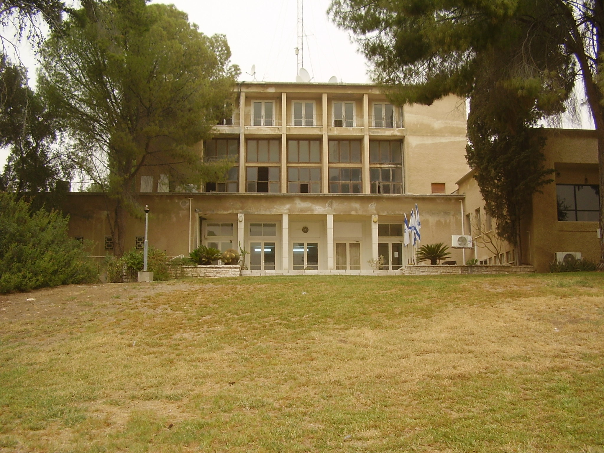 trumpeldor house in kibbutz tel-yosef